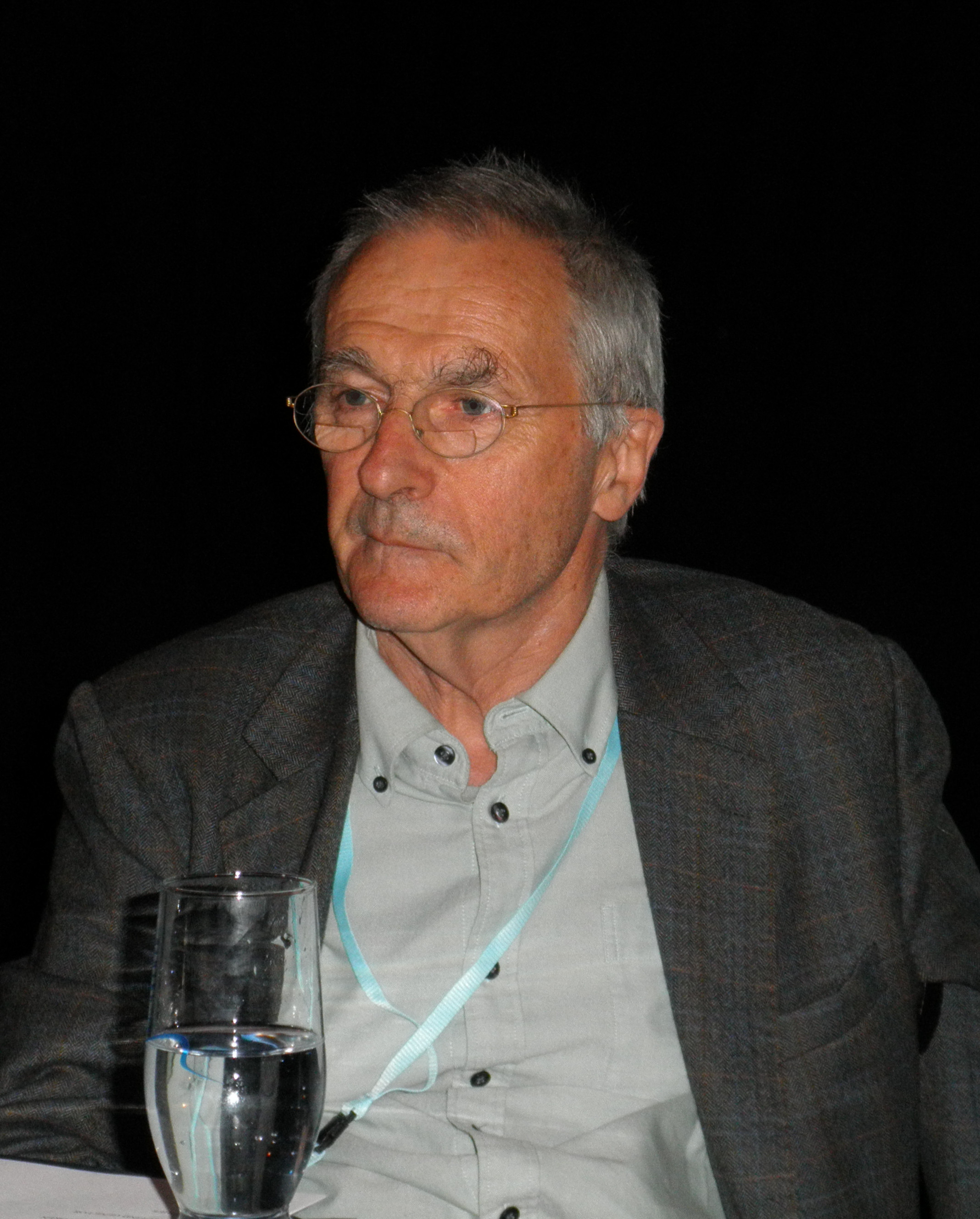 Welsh geneticist Steve Jones in April 2012. Red eyes effect removed.